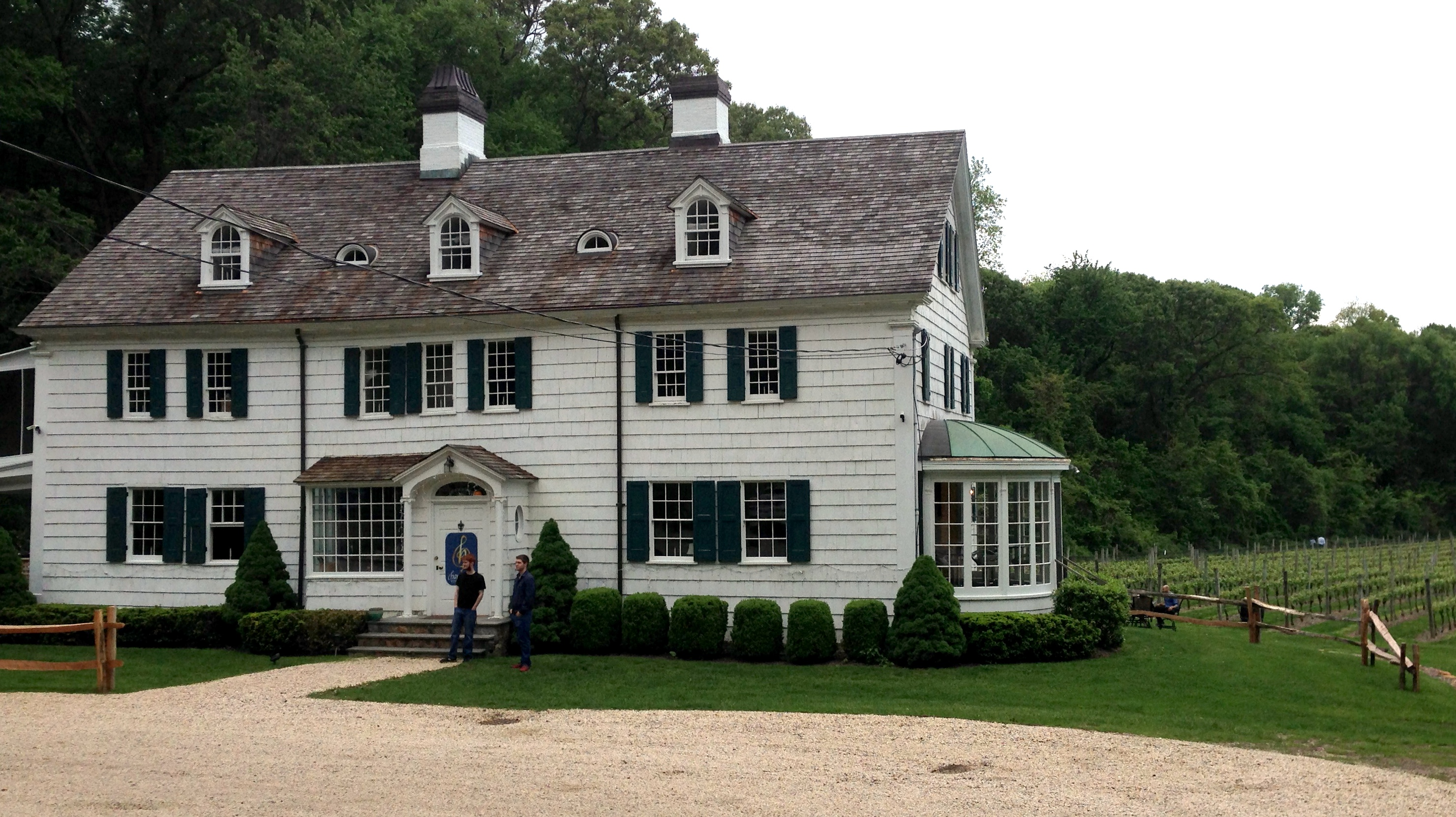 The c.1690 farmhouse within the East Farm Estate in the hamlet of Head of the Harbor, New York. The building is as of 2014 used as a wine tasting room as part of an active winery.